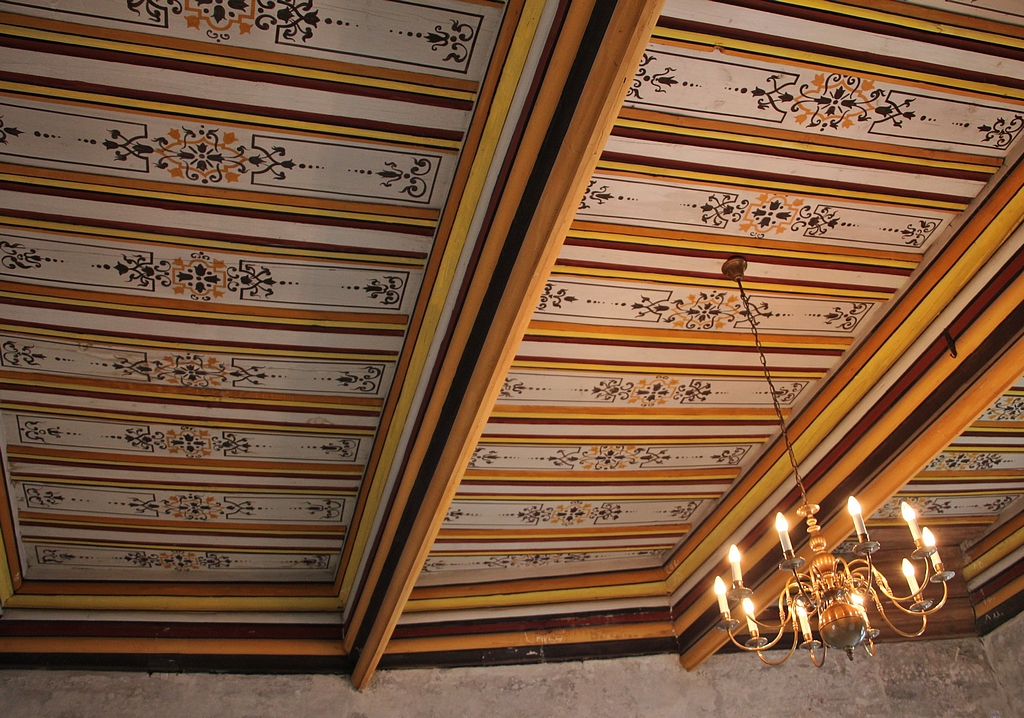 Rochlitz Castle, painted wooden ceiling.